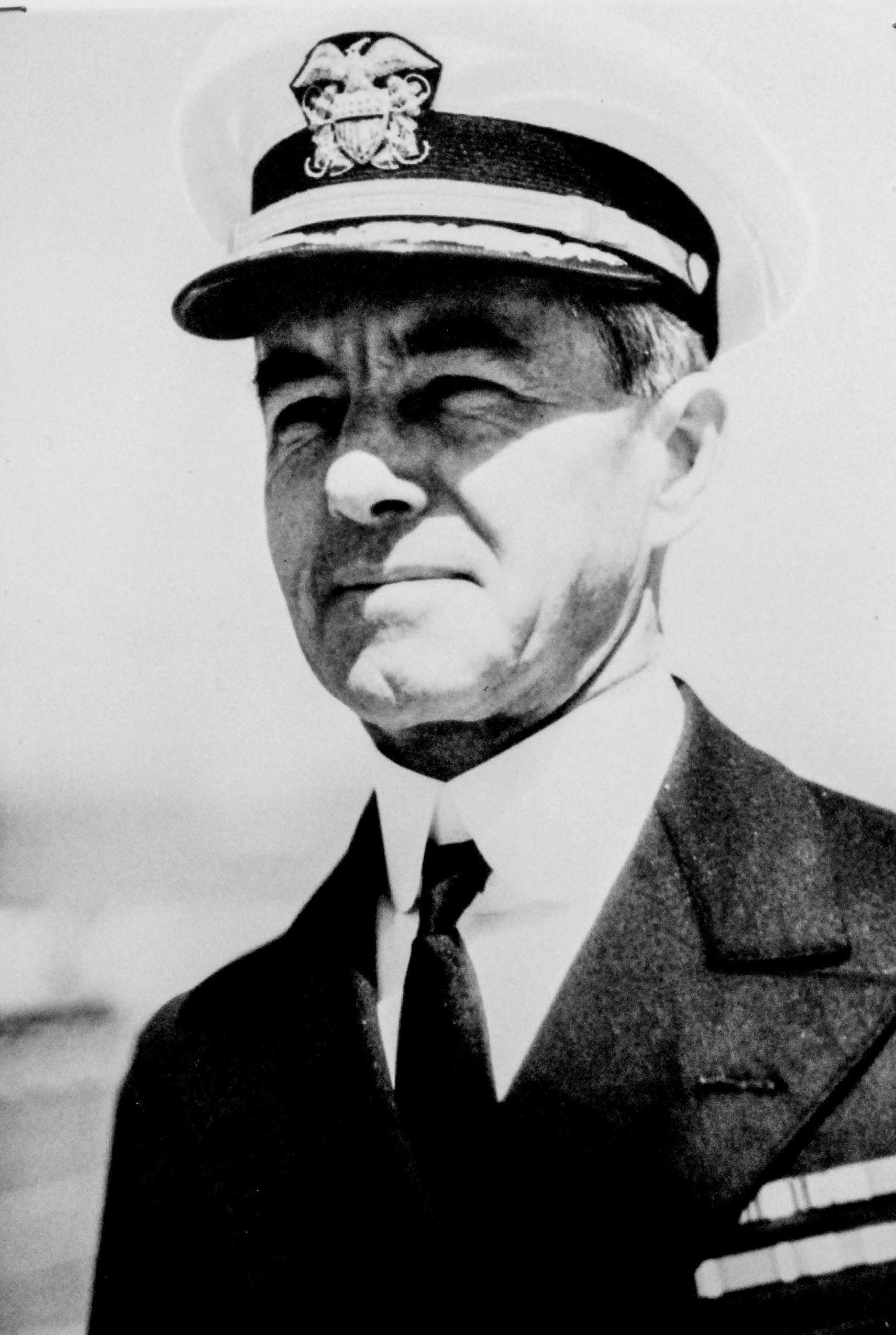 Admiral Thomas C. Hart